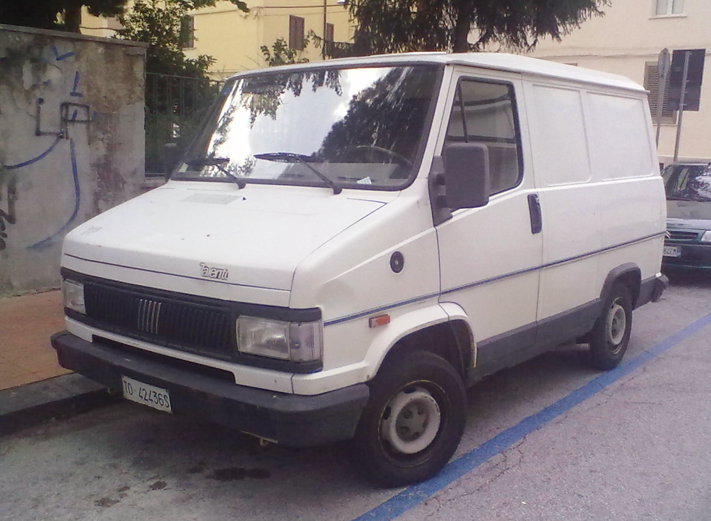 Fiat Talento in Avellino, Italy